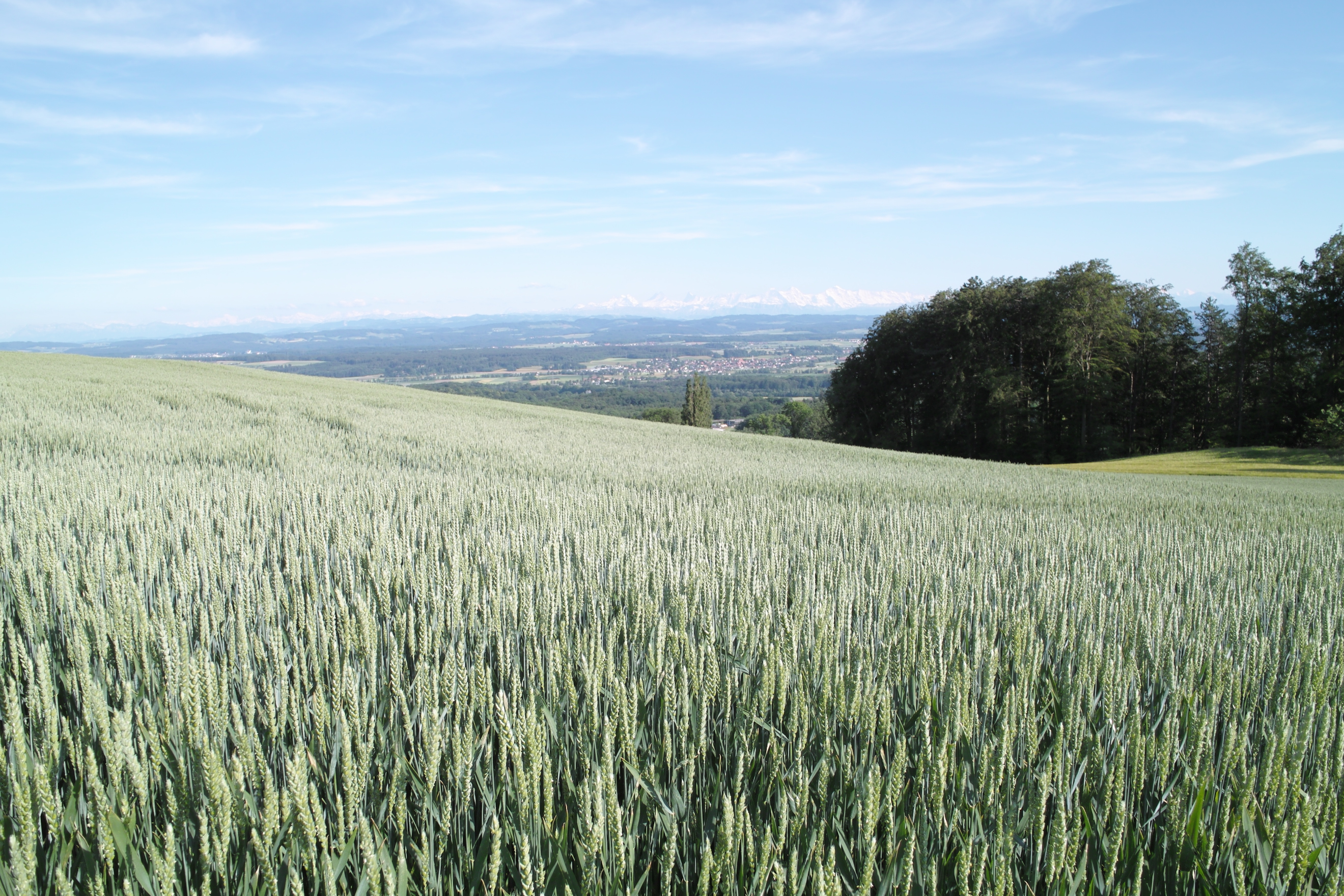 View from a field in Kammersrohr (canton of Solothurn, Switzerland) at the southern foot of the Swiss Jura across the Swiss plateau and towards the Bernese Alps.